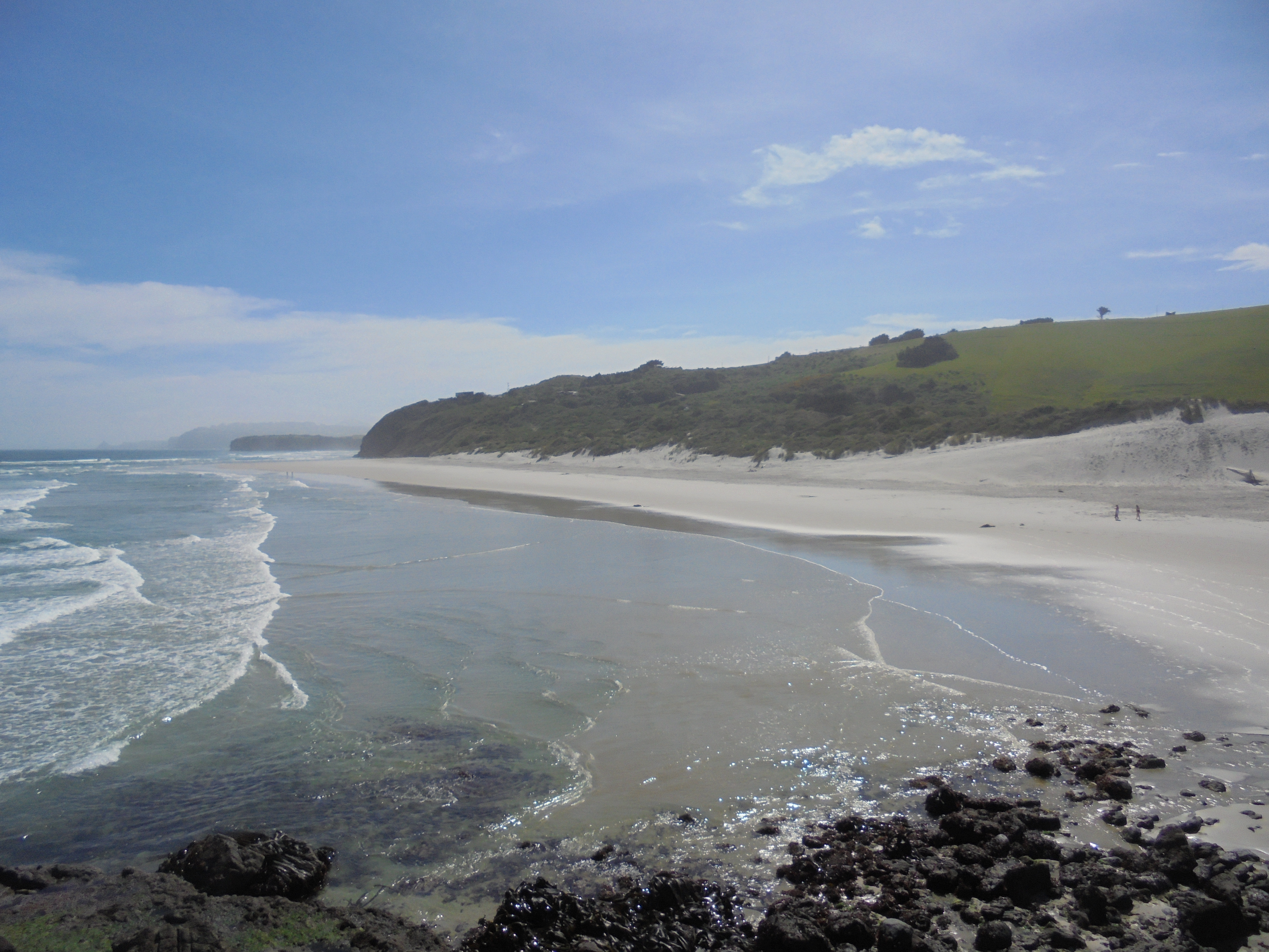 A view of Smaills Beach, Dunedin, New Zealand, from a vantage point above the eastern end of the beach. Tomahawk Bluff is prominent behind the beach and Lawyers Head can be seen in the distance beyond Tomahawk Bluff.